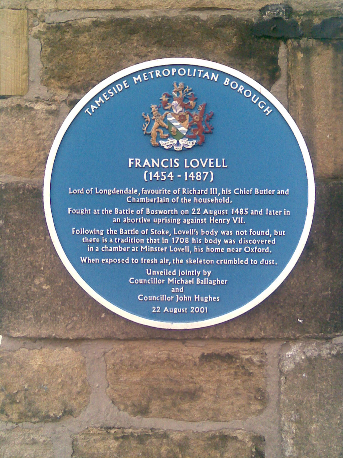 Blue Plaque of Francis Lovell, 1st Viscount Lovell, Mottram Court House, Mottram in Longdendale. This image represents an Open Plaques entry #8035.